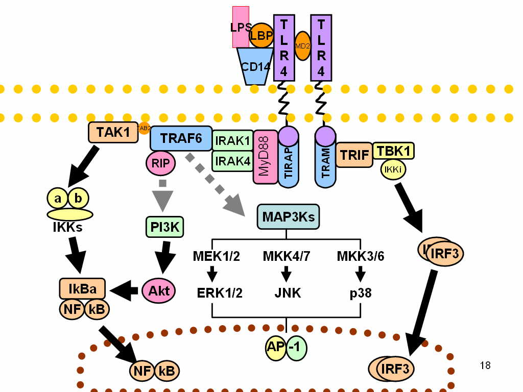 Simple representation of the toll-like receptor pathways, taken from my seminar powerpoint. Revised to include TIRAP/Mal. Dashed grey lines represent unknown associations. Les cadenes LPS representen lipopolisacàrids.